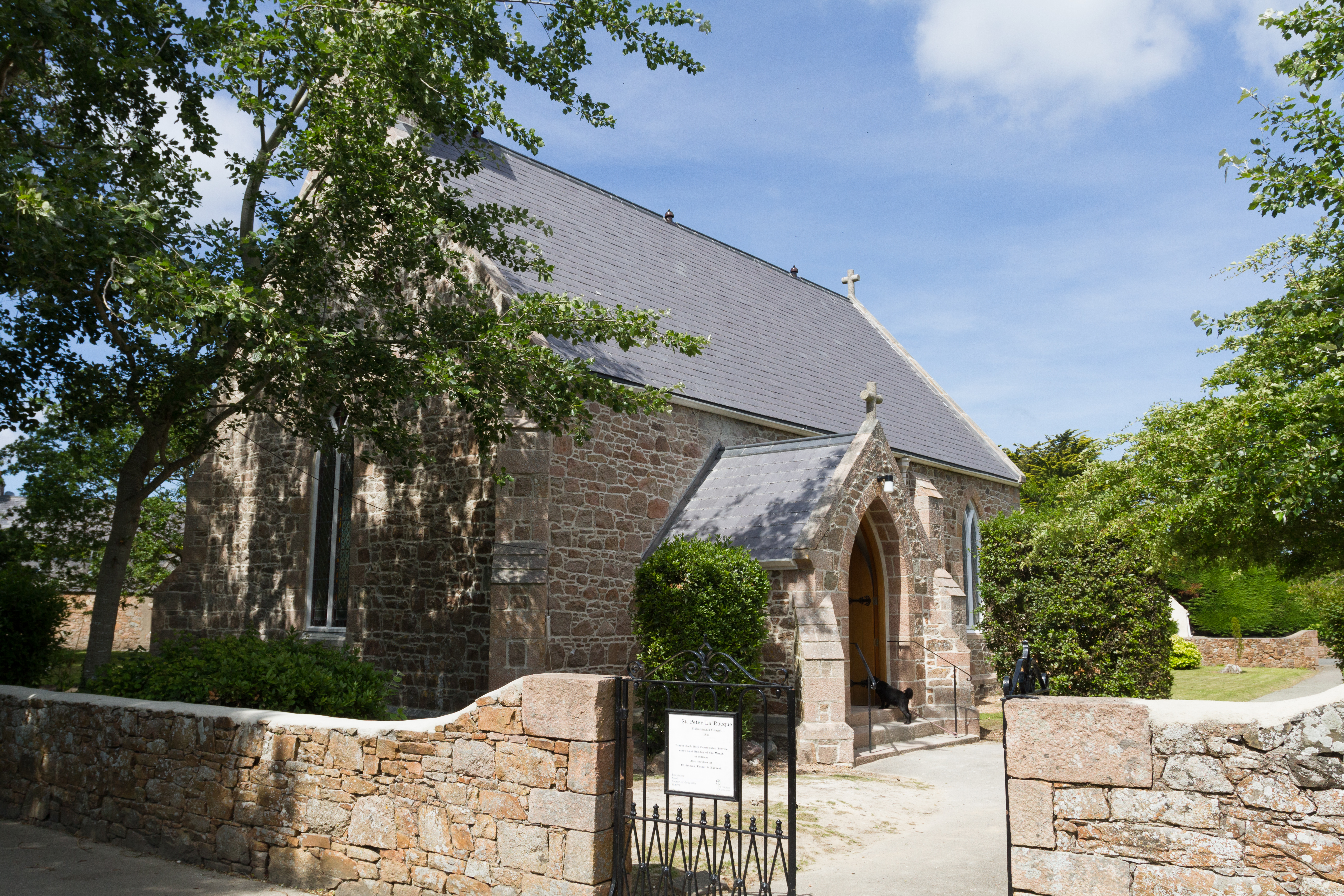 Saint Peter La Rocque the daughter chapel of the Parish Church of Saint Martin de Grouville in Jersey, Channel Islands.